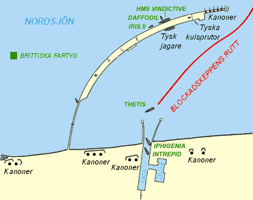 I made it MoRsE 17:00, 4 May 2006 (UTC)